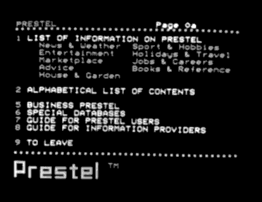 Description Page Prestel Date1981SourceOwn work by the original uploaderAuthorBernard MARTI Page Prestel